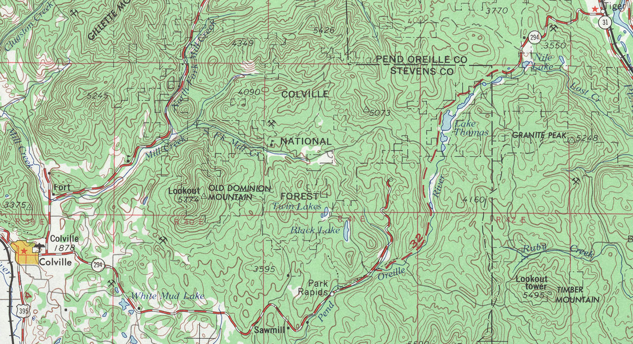 A map showing the original route of Washington State Route 294 in 1966, including the gap.